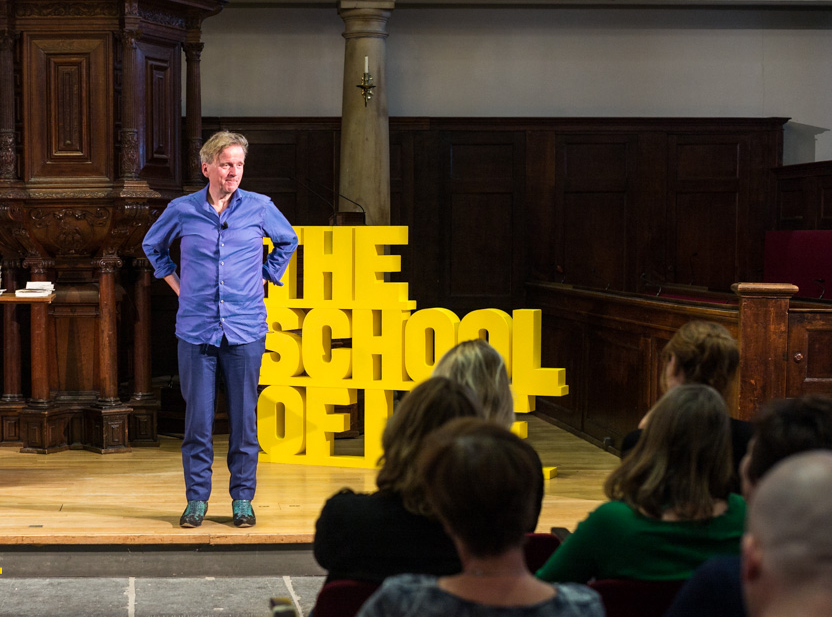 René Ten Bos bij The School of Life